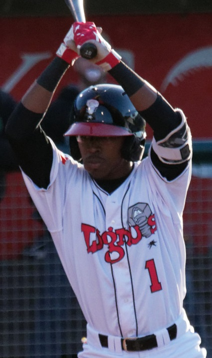 Samad Taylor with the Lansing Lugnuts in 2018